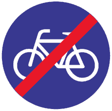 Luxembourg road sign diagram